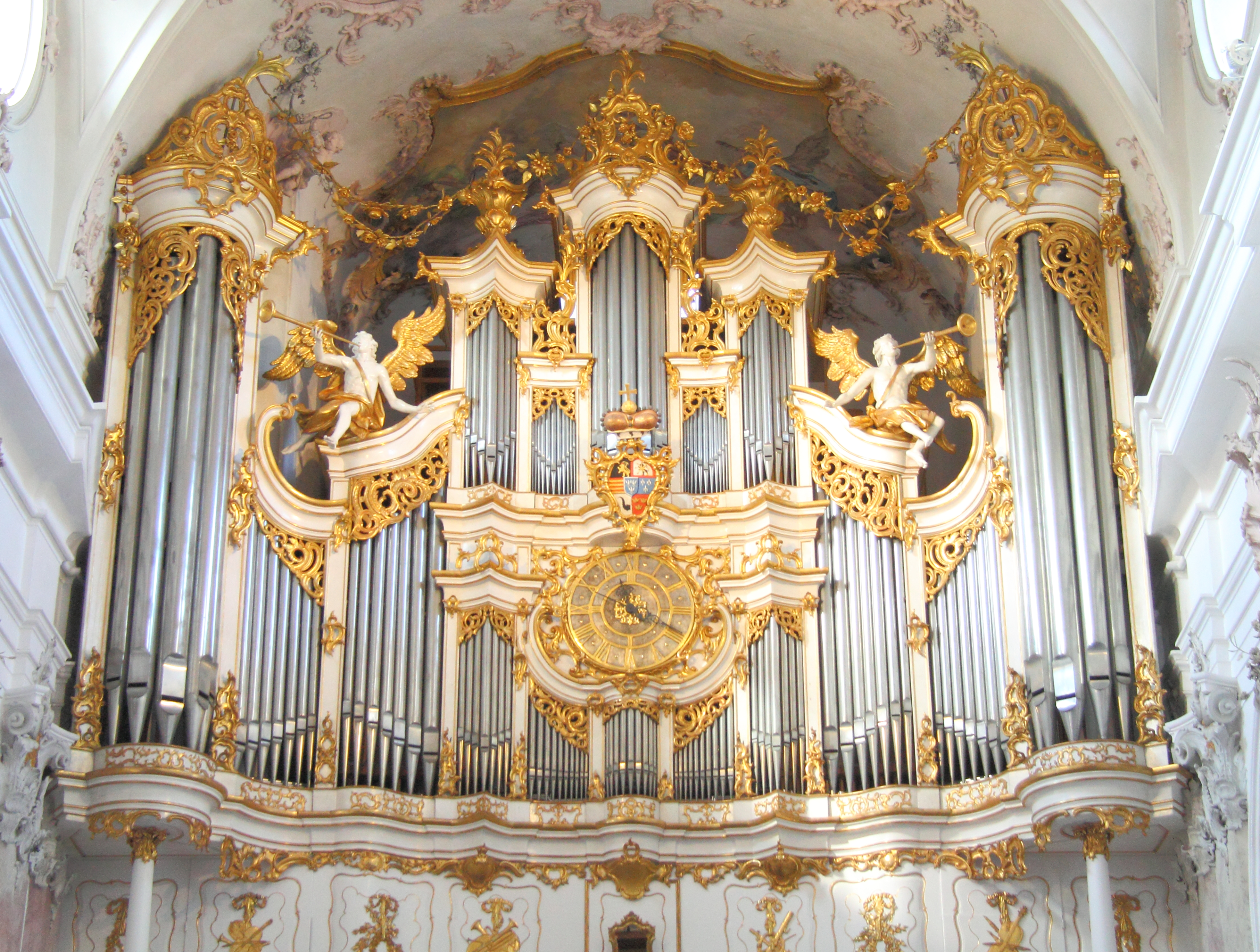 Amorbach Abbey, Odenwald forest, Bavaria/Germany, abbey church